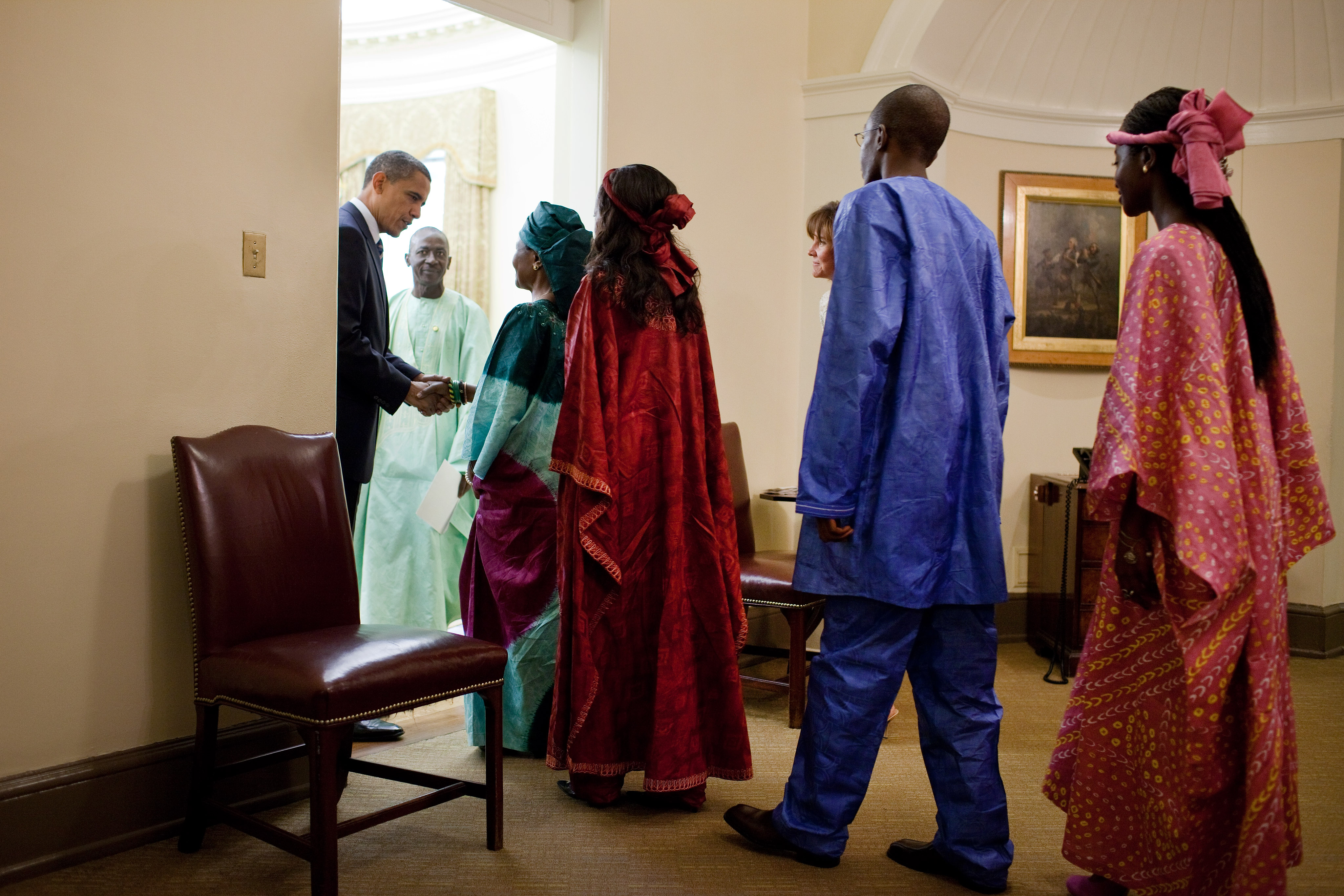 President Barack Obama greets Ambassador Alieu Momodou Ngum, of Republic of The Gambia, and his family before the start of an ambassador credentialing ceremony in the Oval Office, Aug. 10, 2010. The presentation of credentials is a traditional ceremony that marks the formal beginning of an ambassador’s service in Washington. (Official White House Photo by Pete Souza) This official White House photograph is in the public domain from a copyright perspective, so while restrictions such as personality or privacy rights may apply, in general, manipulations are allowed.